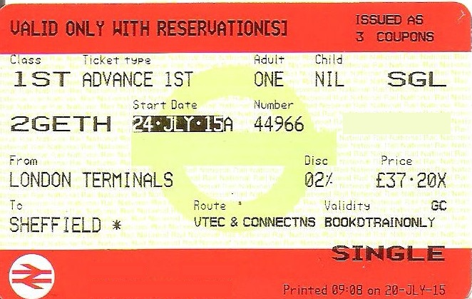 Photograph of a 1st class Advance rail ticket from London to Sheffield, with a Two Together Railcard discount applied.